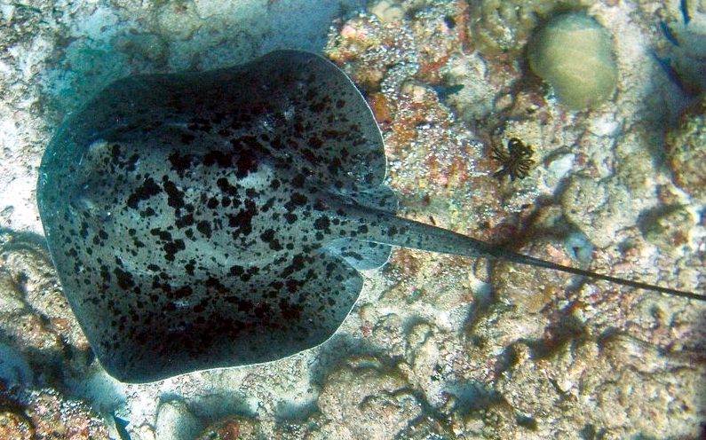 Blotched fantail ray (Taeniura meyeni) at Mirihi, Maldives. This work has been released into the public domain by its author, fishx6. This applies worldwide.In some countries this may not be legally possible; if so:fishx6 grants anyone the right to use this work for any purpose, without any conditions, unless such conditions are required by law.